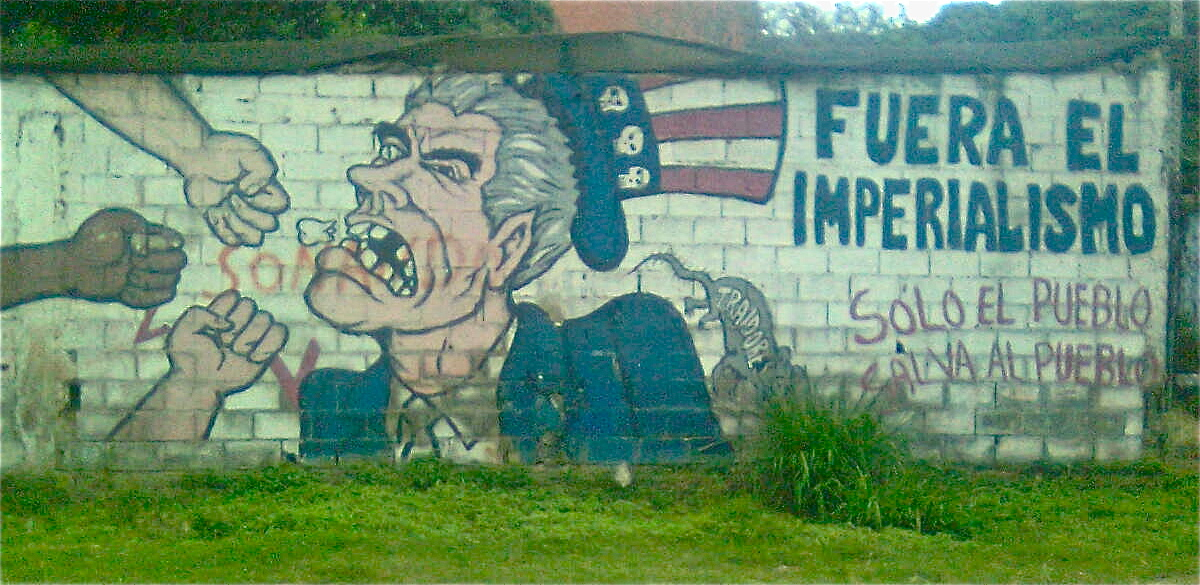 In low class neighbourhoods of Caracas you can come across these political grafittis.